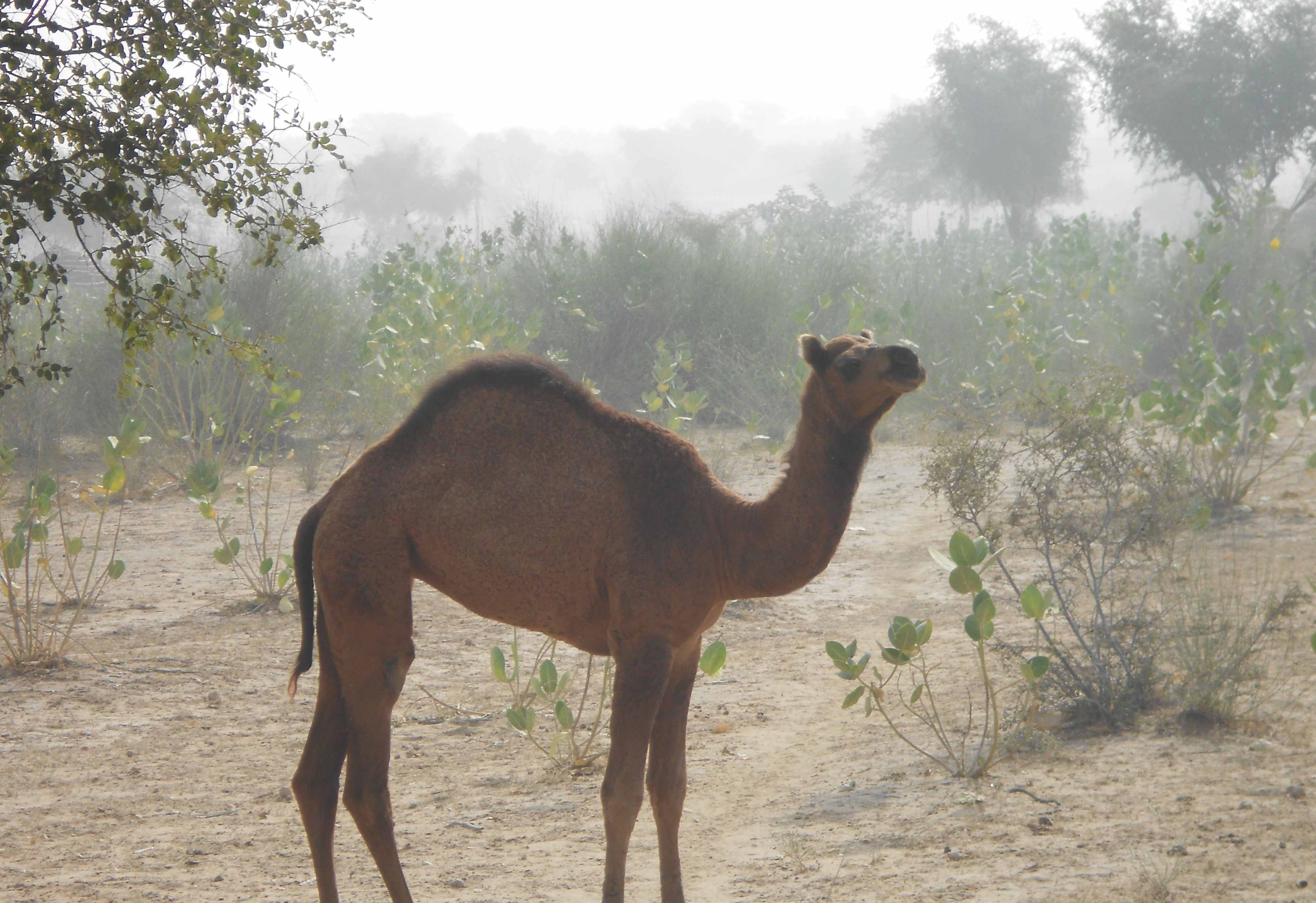 Abhay Resort & Camp